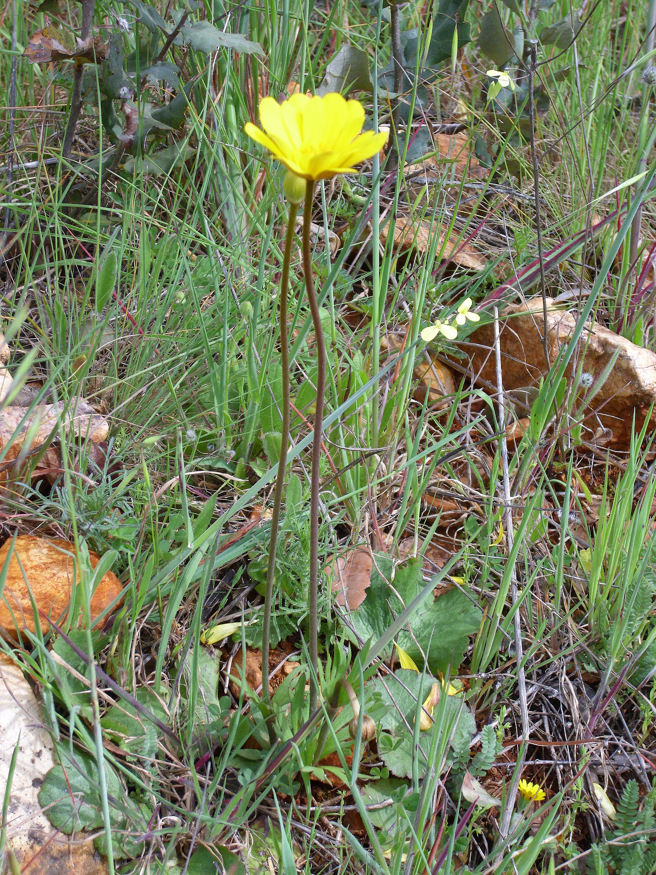 Anemone palmata habit Campo de Calatrava, Spain